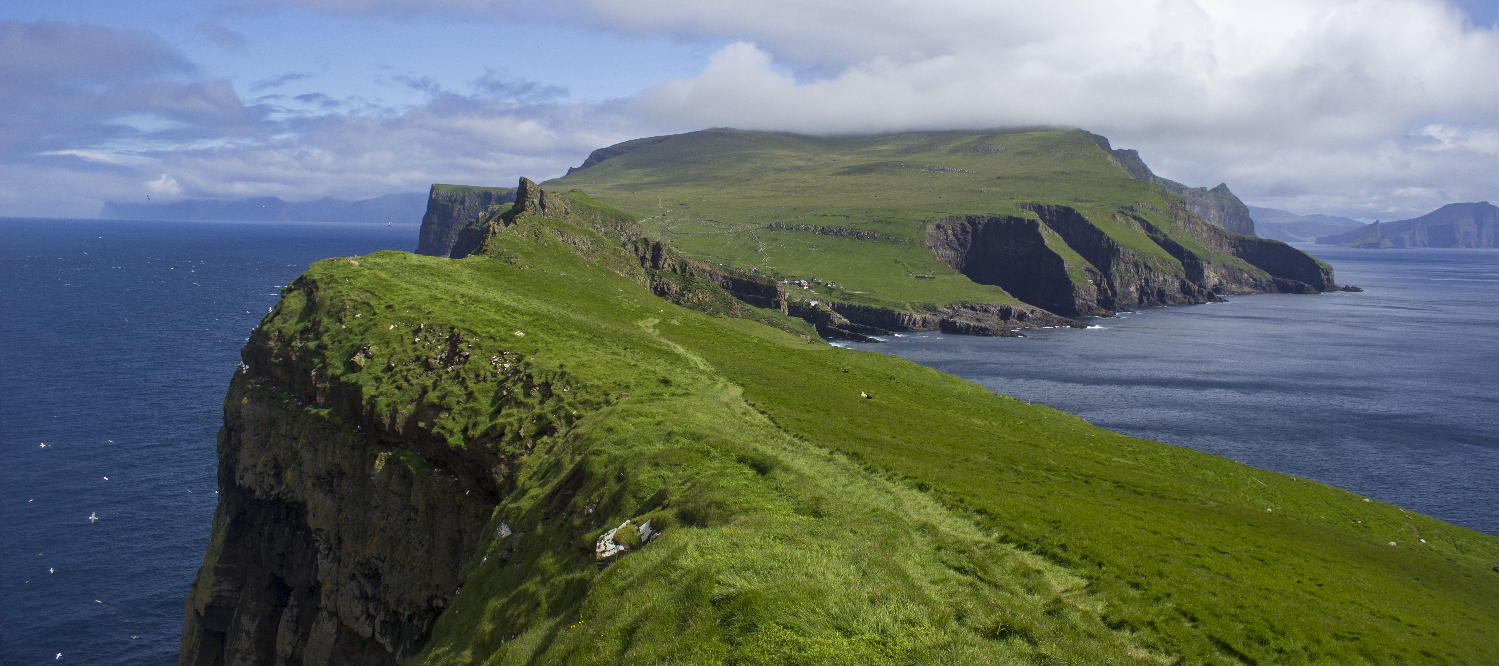 The island of Mykines, Faroe Islands.